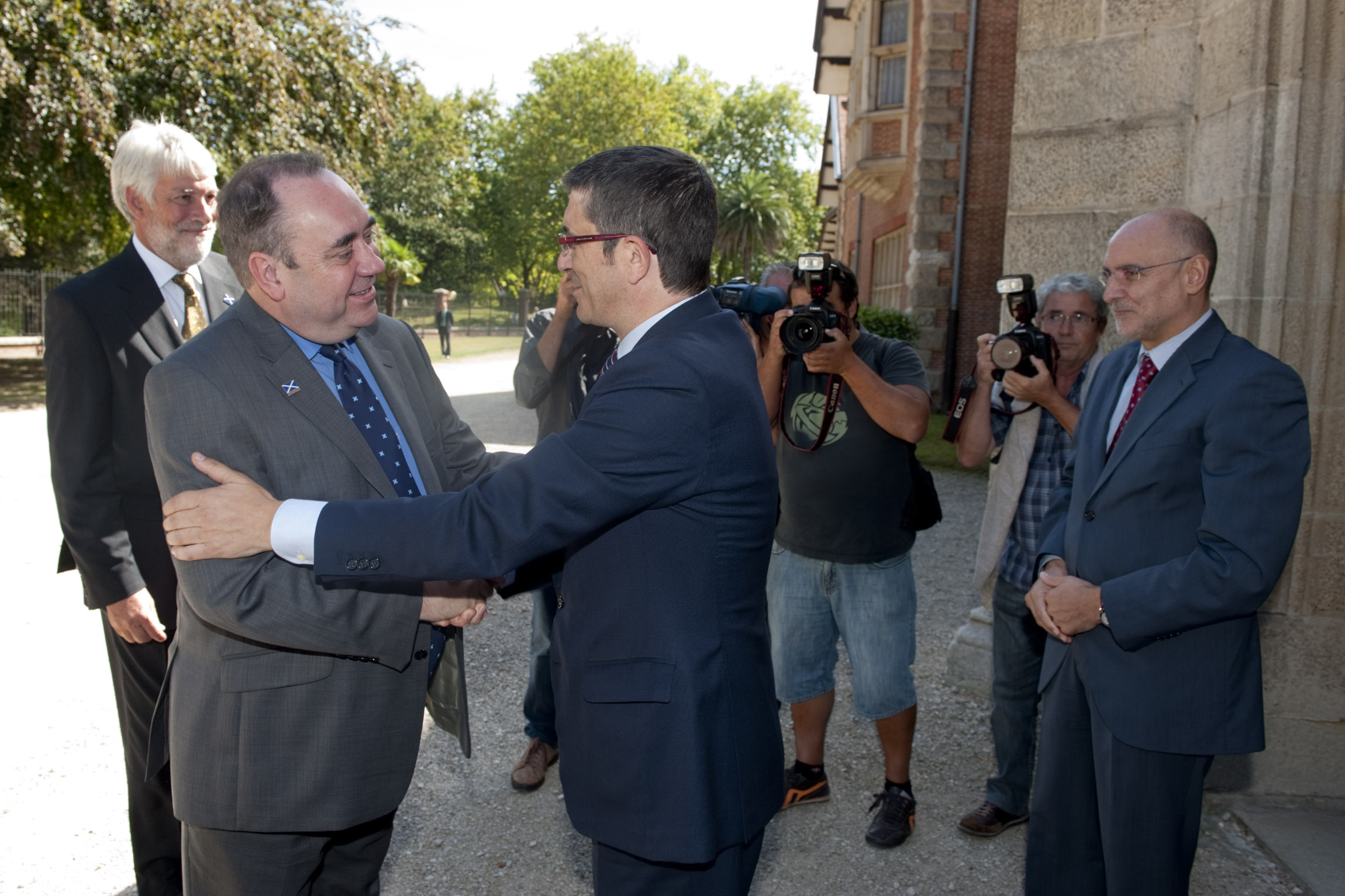 Alex Salmond in Spain